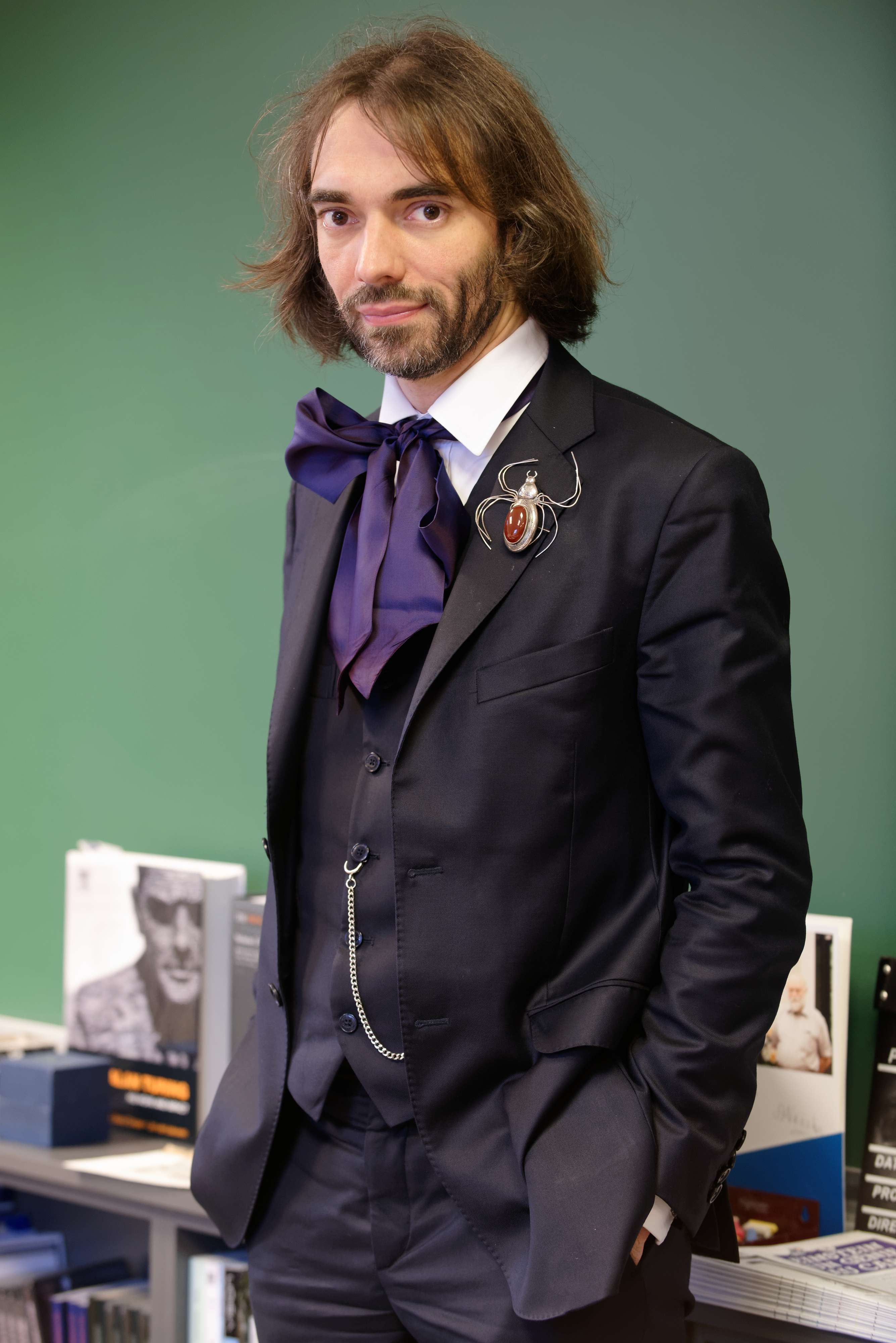 French mathematician Cédric Villani at his office at the Institut Henri Poincaré.